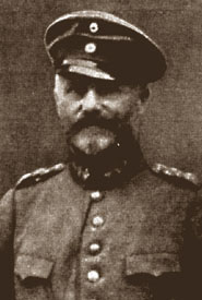 General of the Infantry Kurt von Pritzelwitz, (1854-1935)